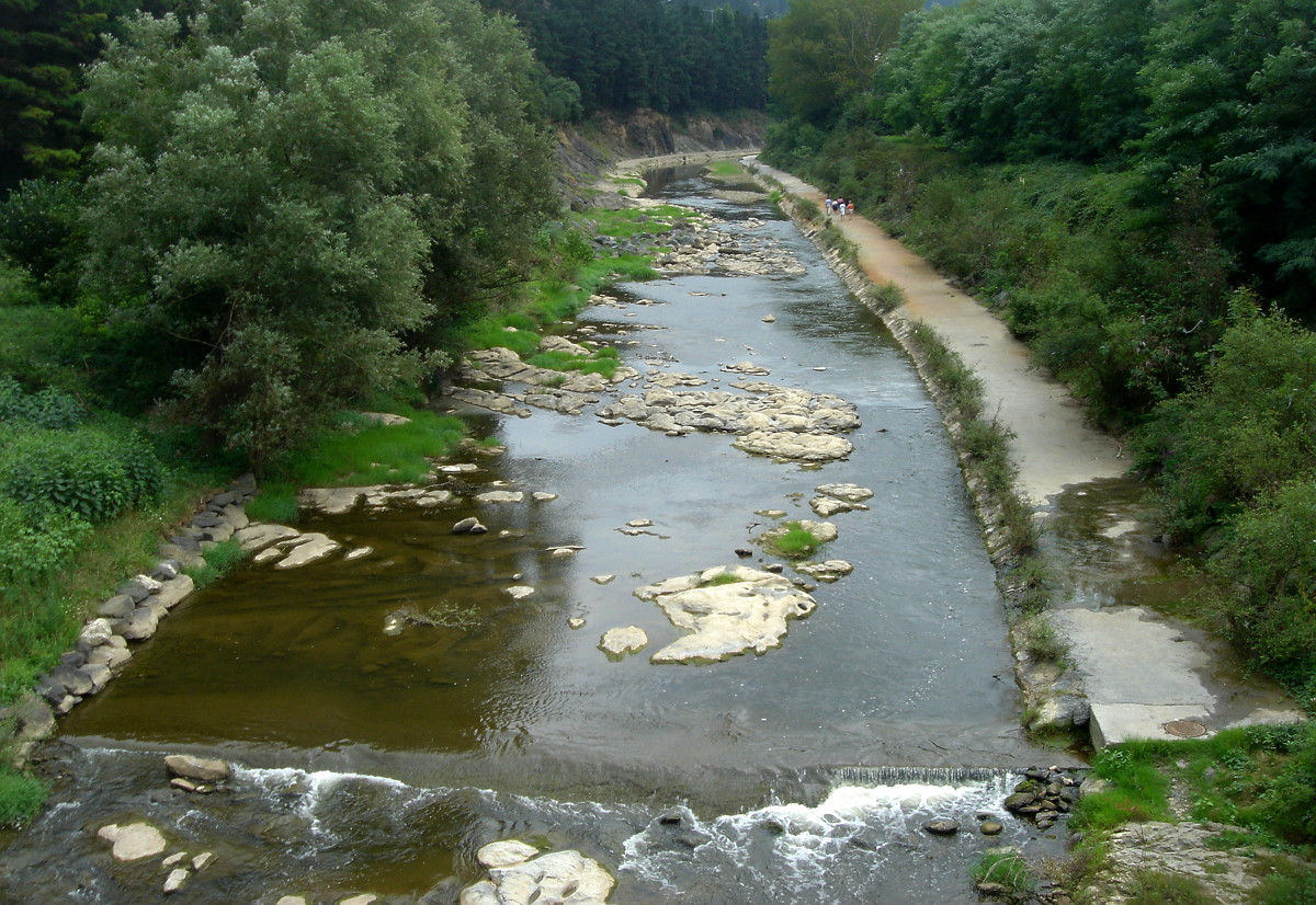 Nervion river in Arrigorriaga (Biscay)